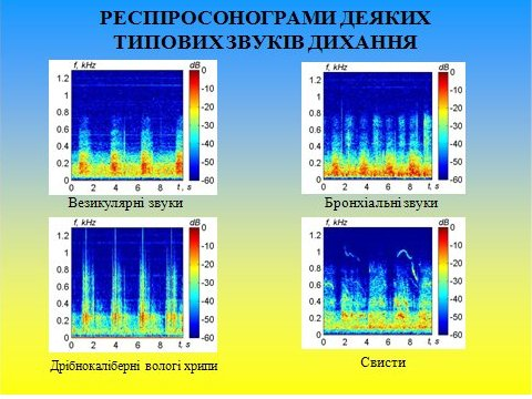 Sonograms of typical breath sounds.